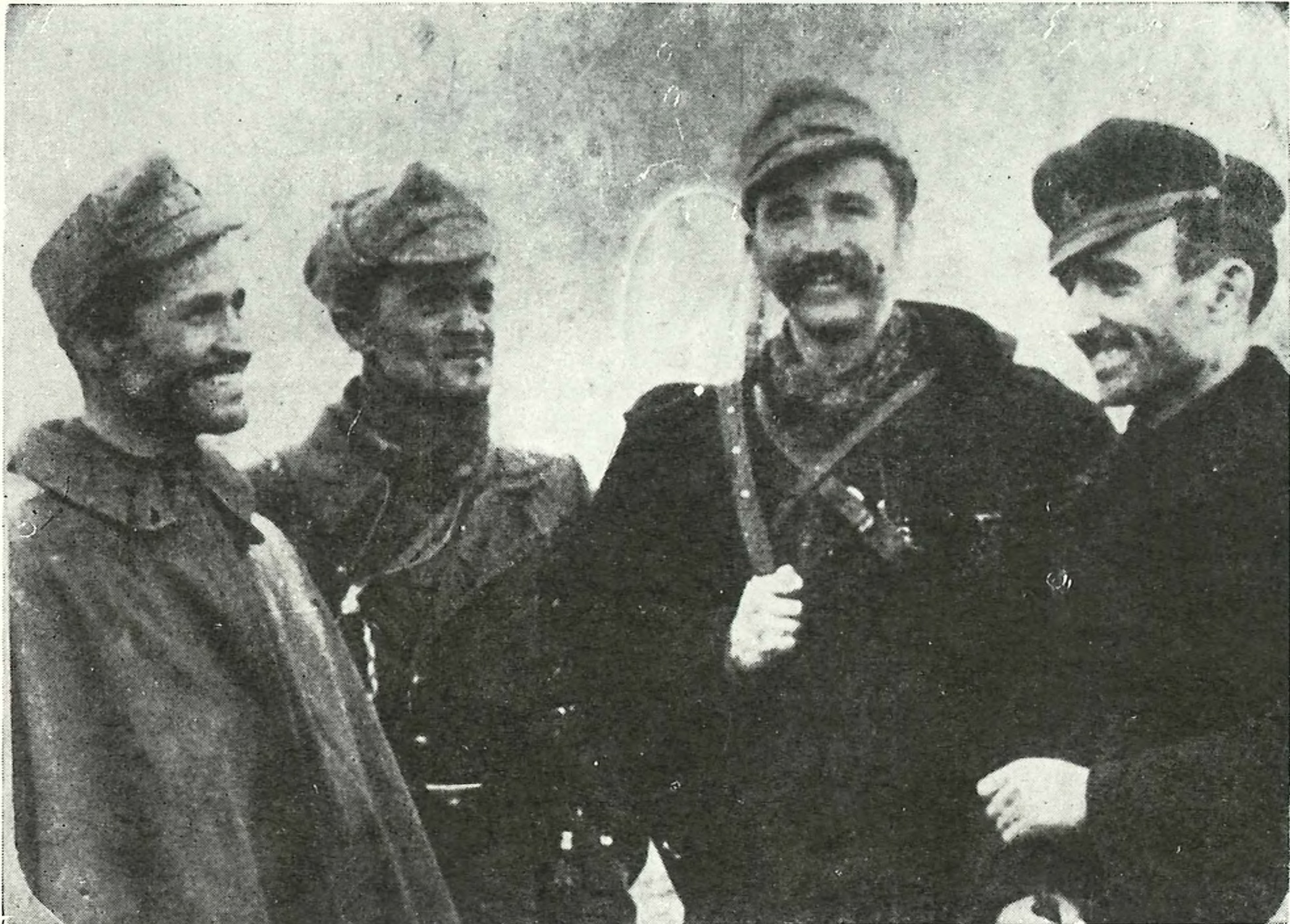 Command staff of the 3rd Macedonian partisan brigade